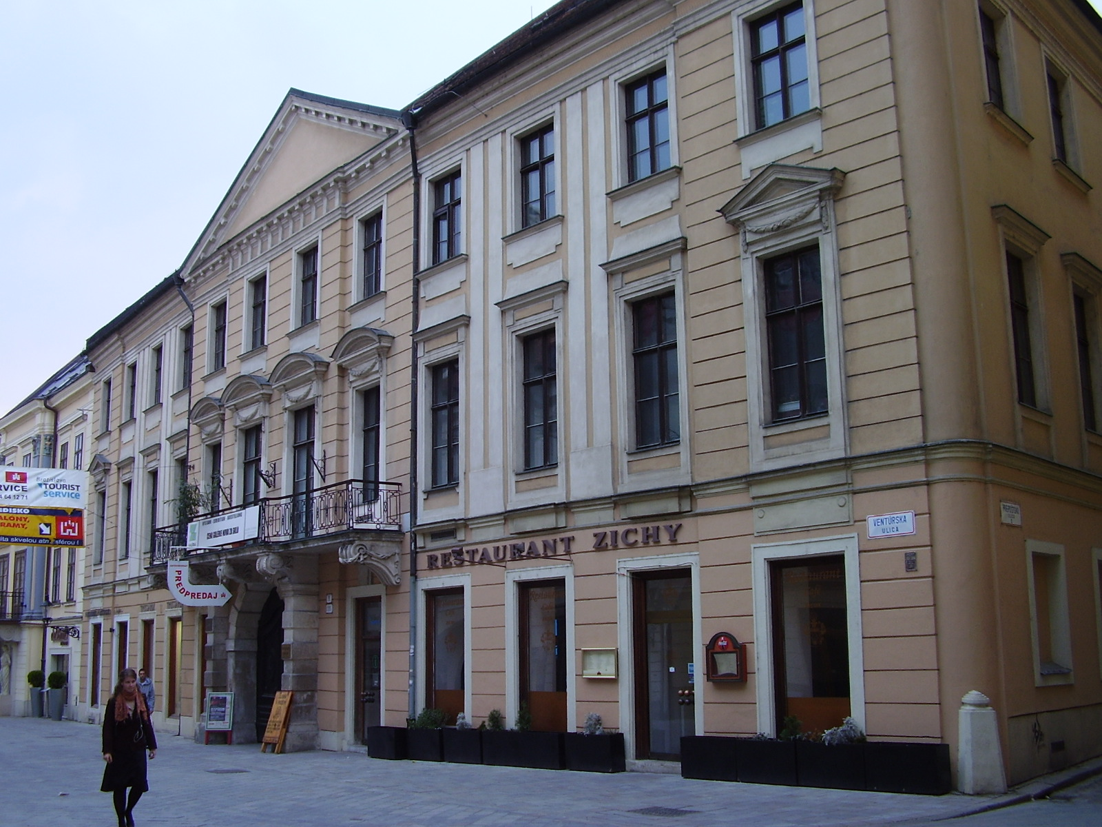 Zichy Palace, Bratislava city centre